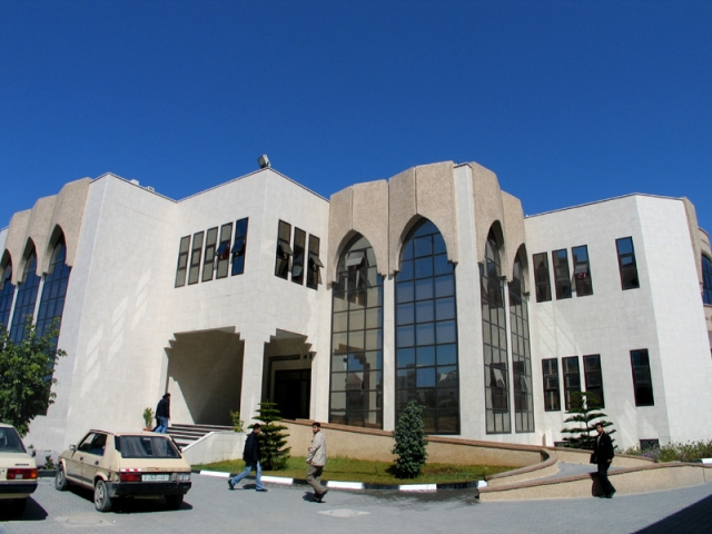 The main conference hall in the Islamic University of Gaza before its destruction in the conflict between Hamas and Fatah in 2007. The main conference hall in the Islamic University of Gaza before its destruction in the conflict between Hamas and Fatah in 2007.